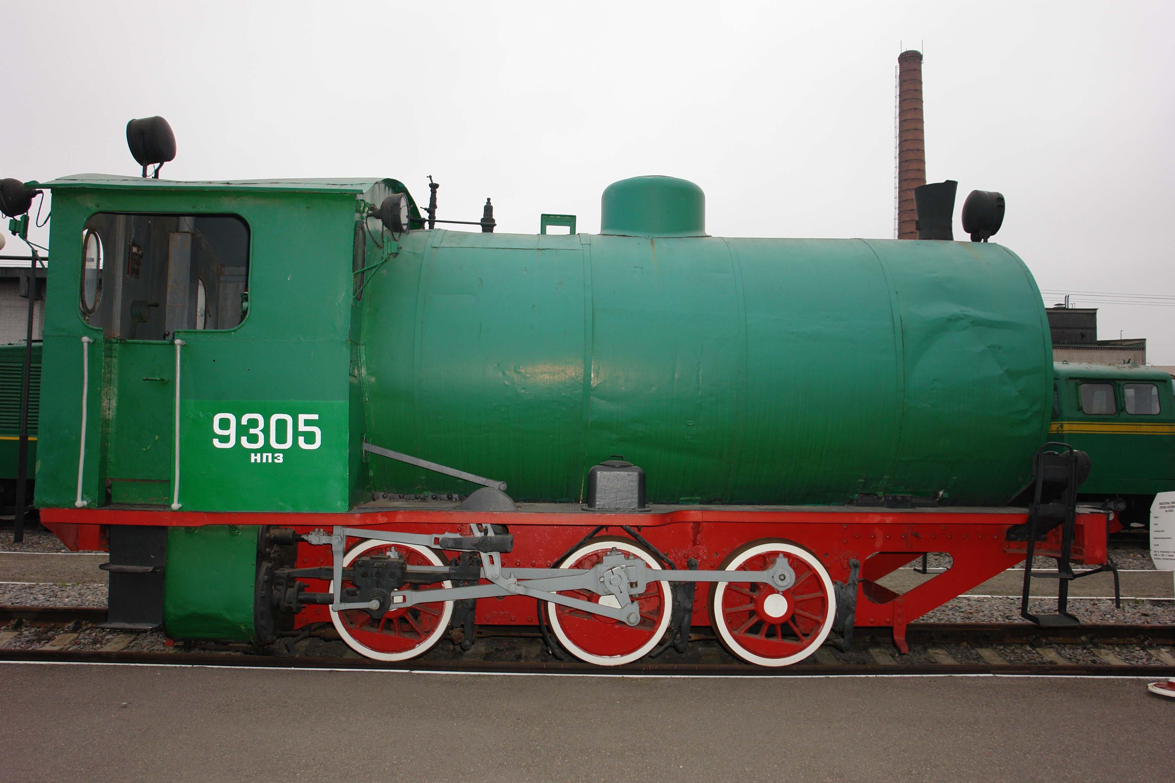 Industrial fireless steam locomotive No.9305 Weight:empty36 t.in working order90 t.Maximum steam pressure in boiler25 atm Built by Schwartzkopf in Germany for the USSR in 1928. It worked at the Tuapse oil refinery. It arrived at the museum in 1993.